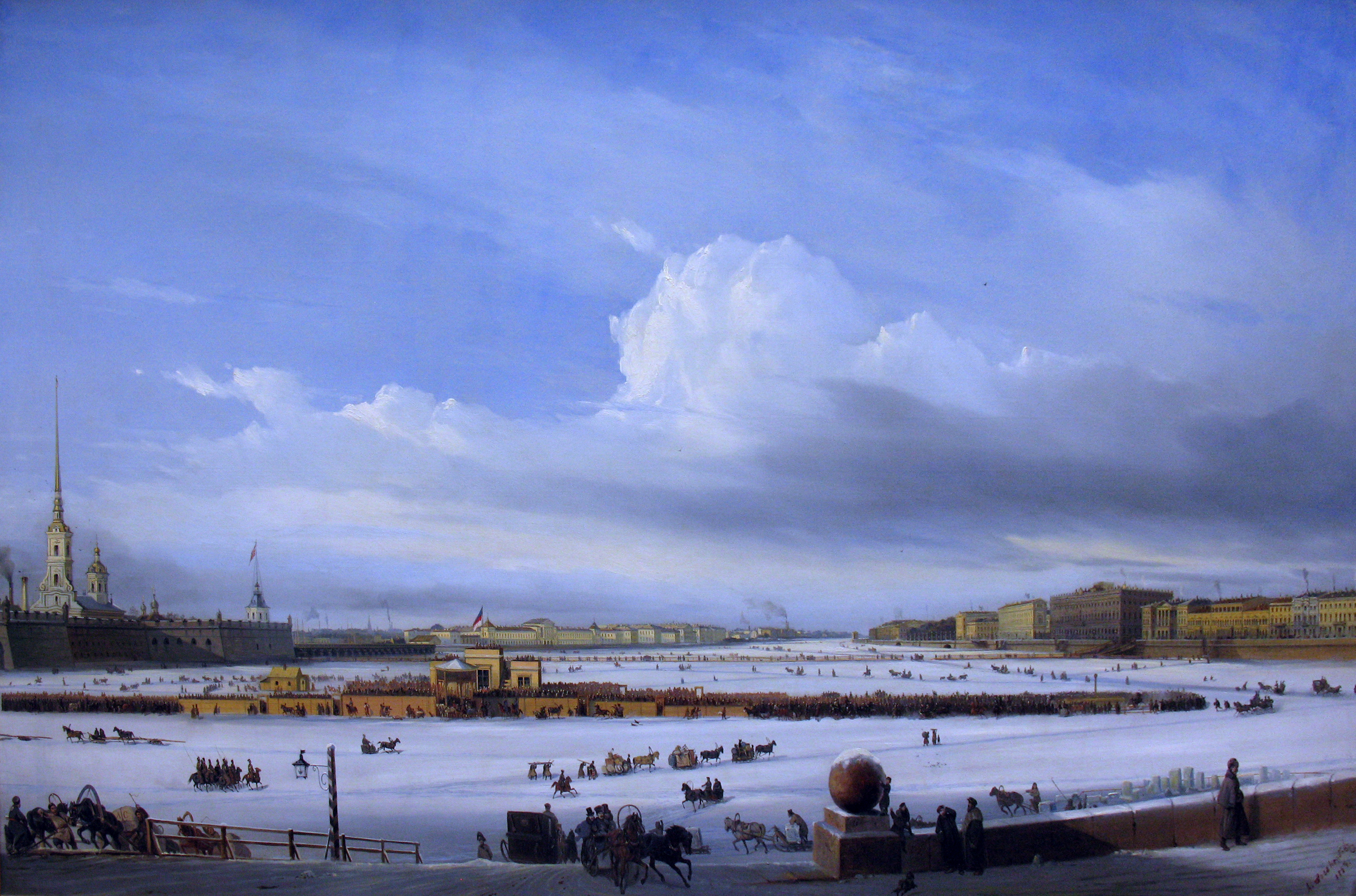 Sledging on the Neva